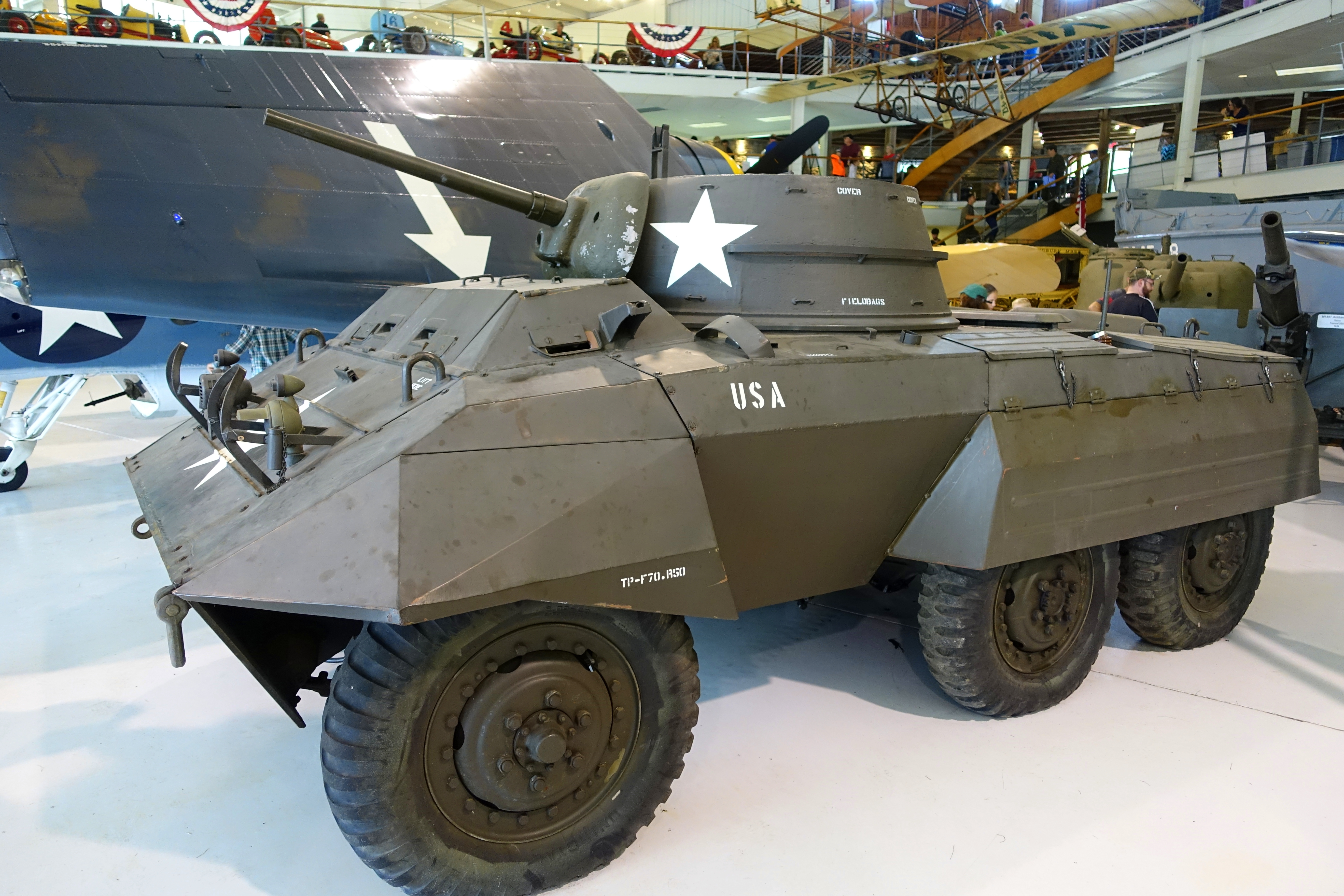 M8 Greyhound - Collings Foundation - Stow / Hudson, Massachusetts, USA.